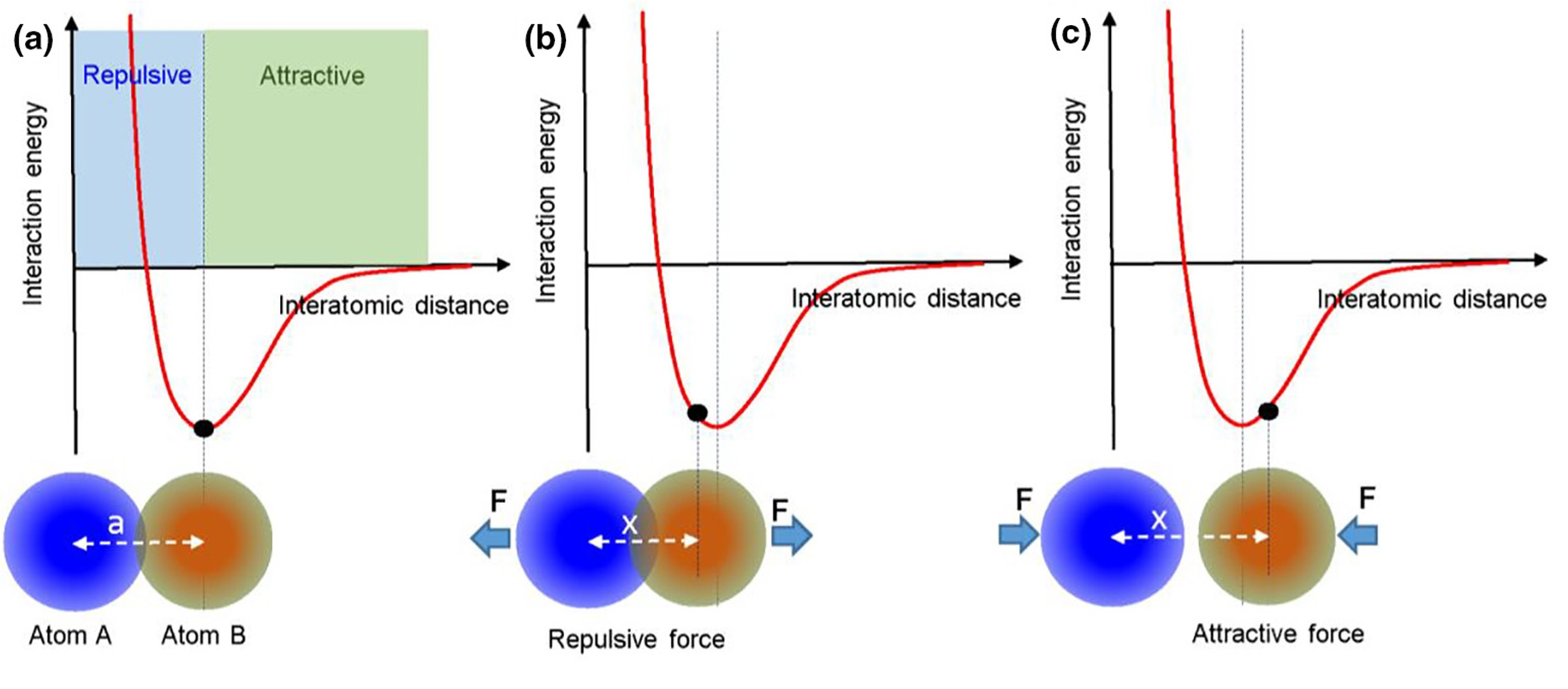 The interatomic interaction potential can be applied to understand the interactions between different atoms.